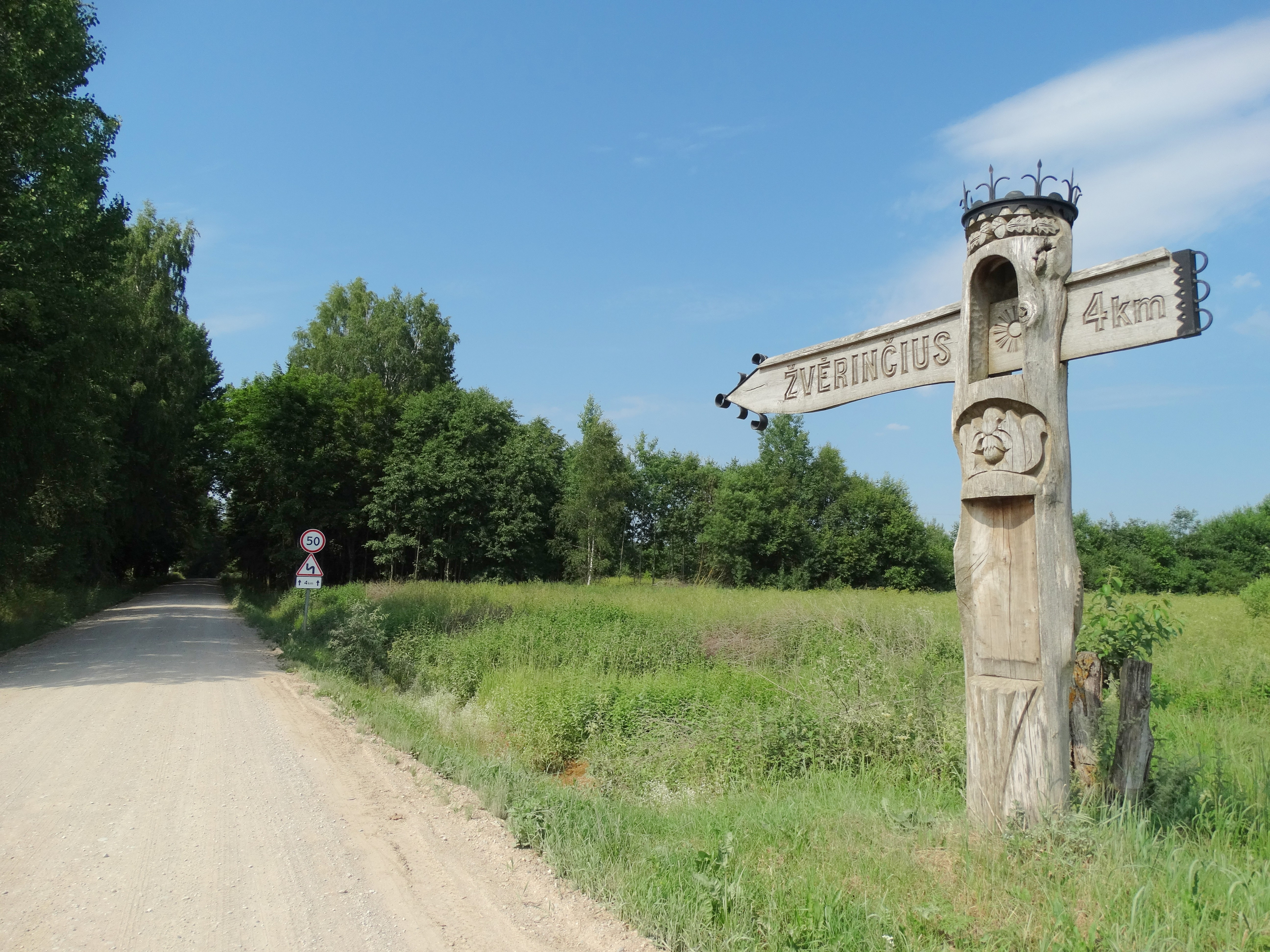 Pointer to Žvėrinčius, Telšiai District, Lithuania